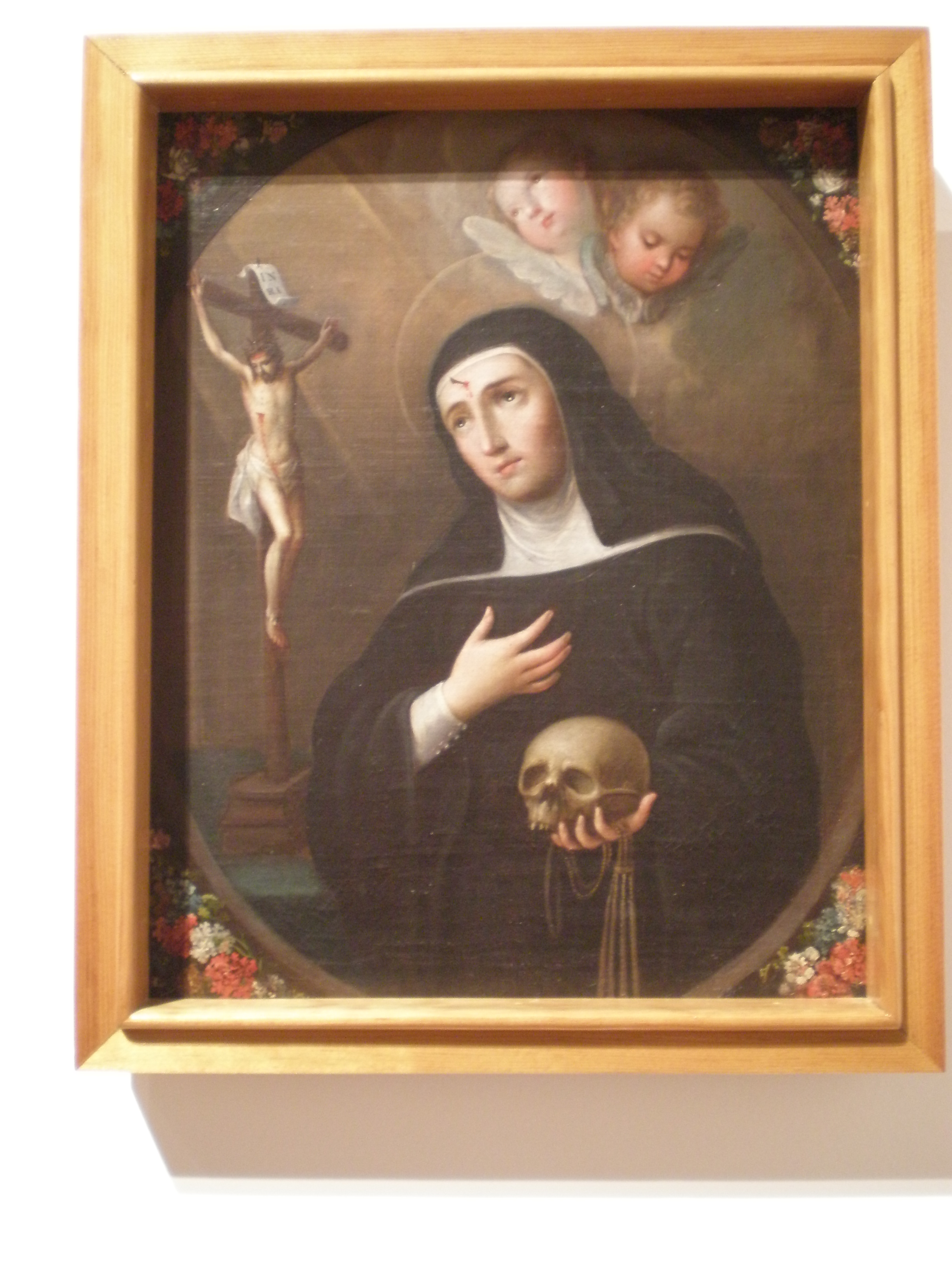 Saint Rita's painting, by an anonymous Mexican painter, ca. 18th cent. Mexico City, National Museum of Art